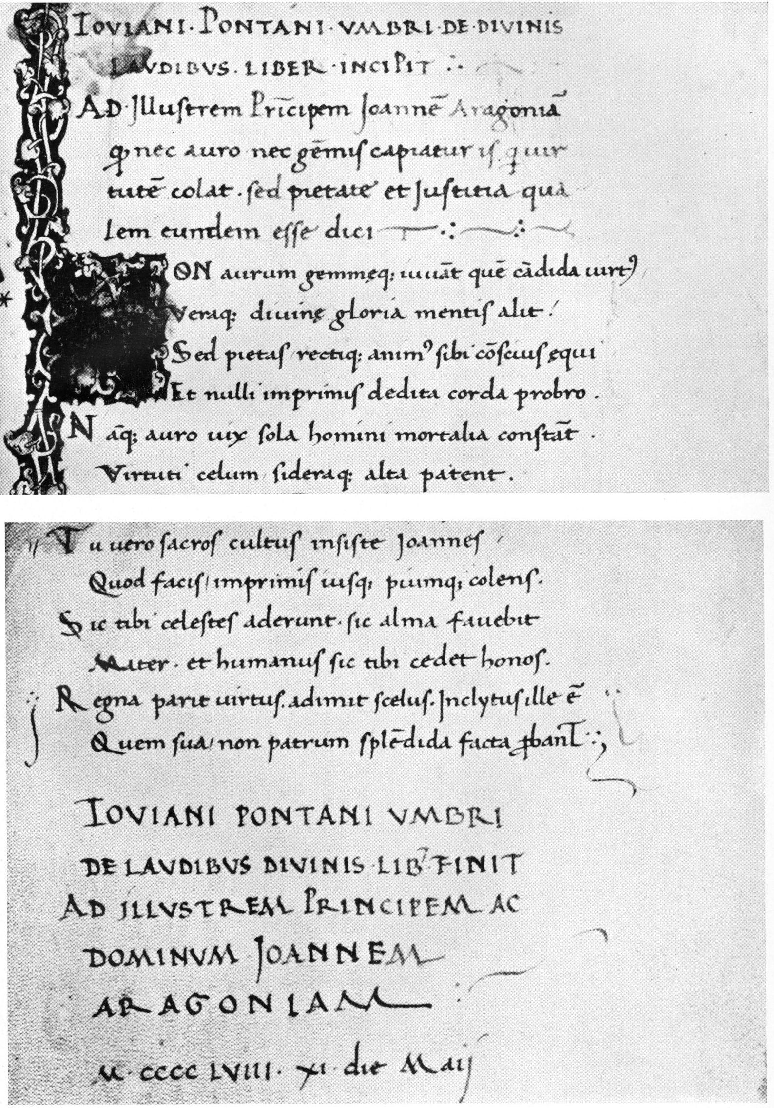 Iovianus Pontanus, De divinis laudibus, autograph. Madrid, Biblioteca Nacional de España, Aa 318, fol. 2r (start) and 17r (end).